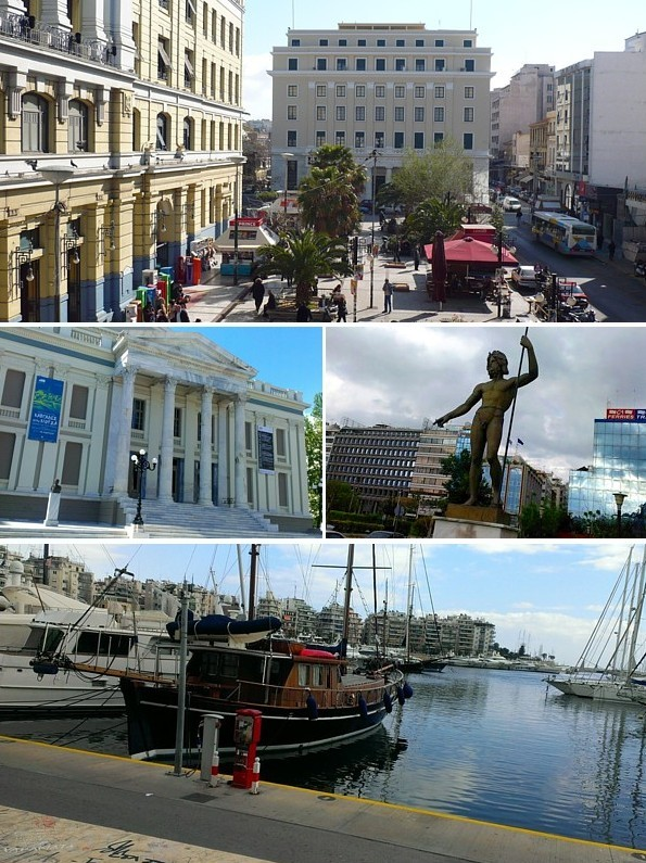 peiraias